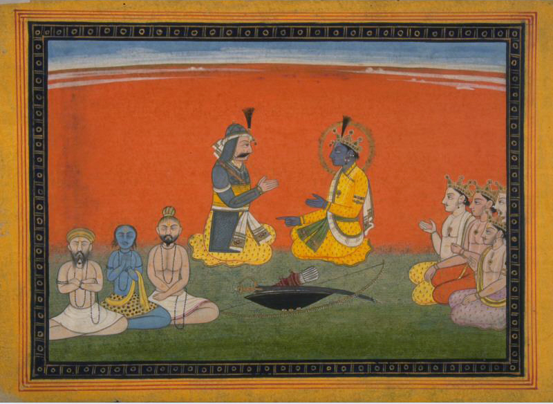 Object ID: 2011.25 Designation: Krishna talking with Yudhishthira and his brothers (probably an episode from the Harivamsha) Date: 1750-1800 Medium: Opaque watercolors on paper Place of Origin: India former kingdom of Guler Punjab Hills Himachal Pradesh state Credit Line: Gift of George Hopper Fitch Label: The five Pandava brothers, led by Yudishthira, are Krishna's kinsmen, who seek his counsel on many occasions in the Mahabharata. This epic details their struggle against the Kauravas, their cousins, for control of the kingdom. Yudishthira said: "What do you think Krishna, now that the time has come? For in this miserable affair whom else can we quietly consult but you, Krishna, best of men?" The blessed Lord said: "I expect only war with the others, for all the portents pointing that way are clear to me. The cries of beast and fowl are fearsome; at the onset of night elephants and horses assume fearful shapes, and the fire burns with many colors, which is a sign of evil. This would not be so unless dread death had arrived to destroy the world of men. Let all your warriors ready their arms, their arrows and armor and elephants, their banners and chariots; let them finish their training and sit ready on horse, vehicle, and elephant. All the gear that is needed for warfare, Yudishthira, make sure that all is at hand and complete." From the Mahabharata On display: no Collection: PAINTING Dimensions: H. 7 1/4 in x W. 10 3/4 in, H. 18.4 cm x W. 27.3 cm Department: SA